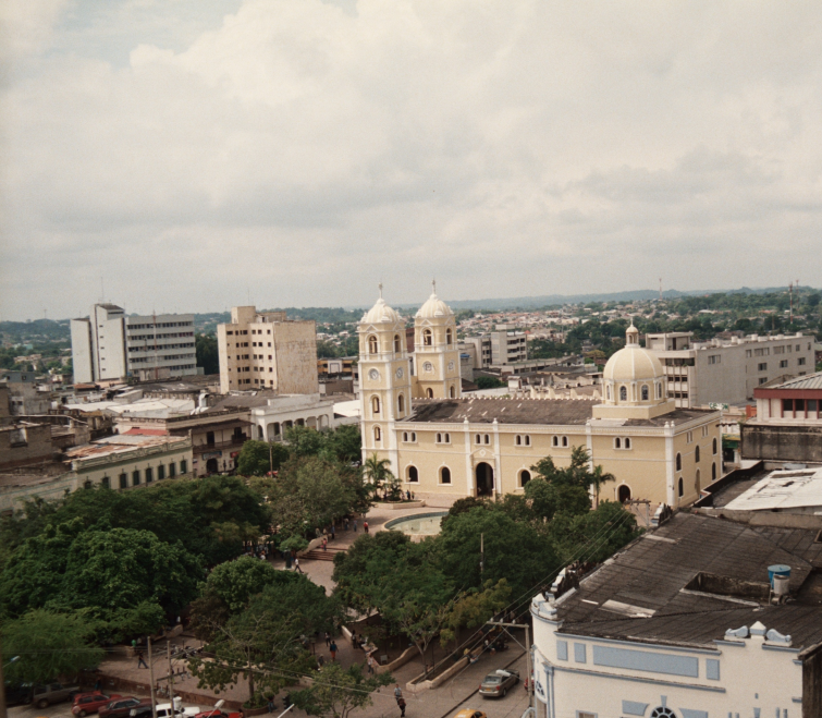 sincelejo city downtown